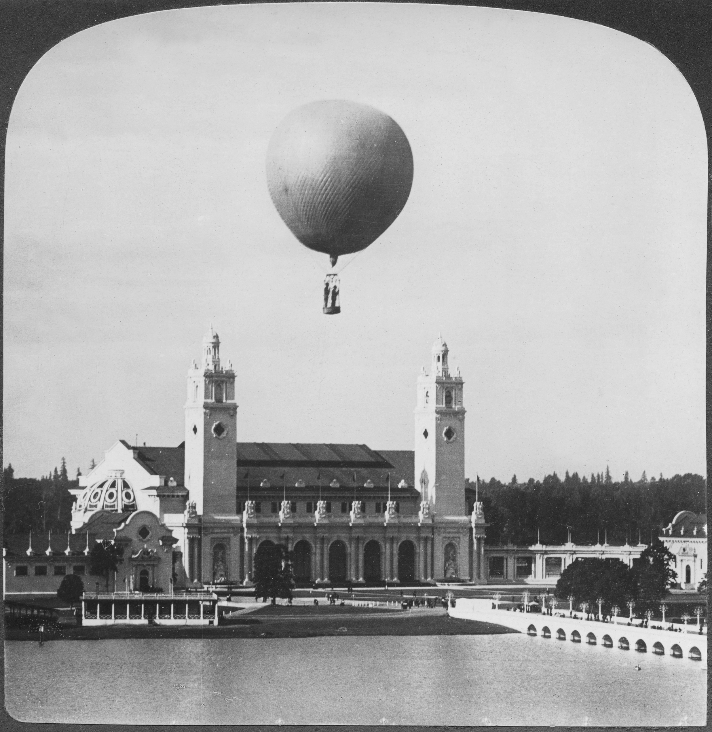 Government Building and Bridgeof Nations, Portland Exposition, Oregon, 1906.